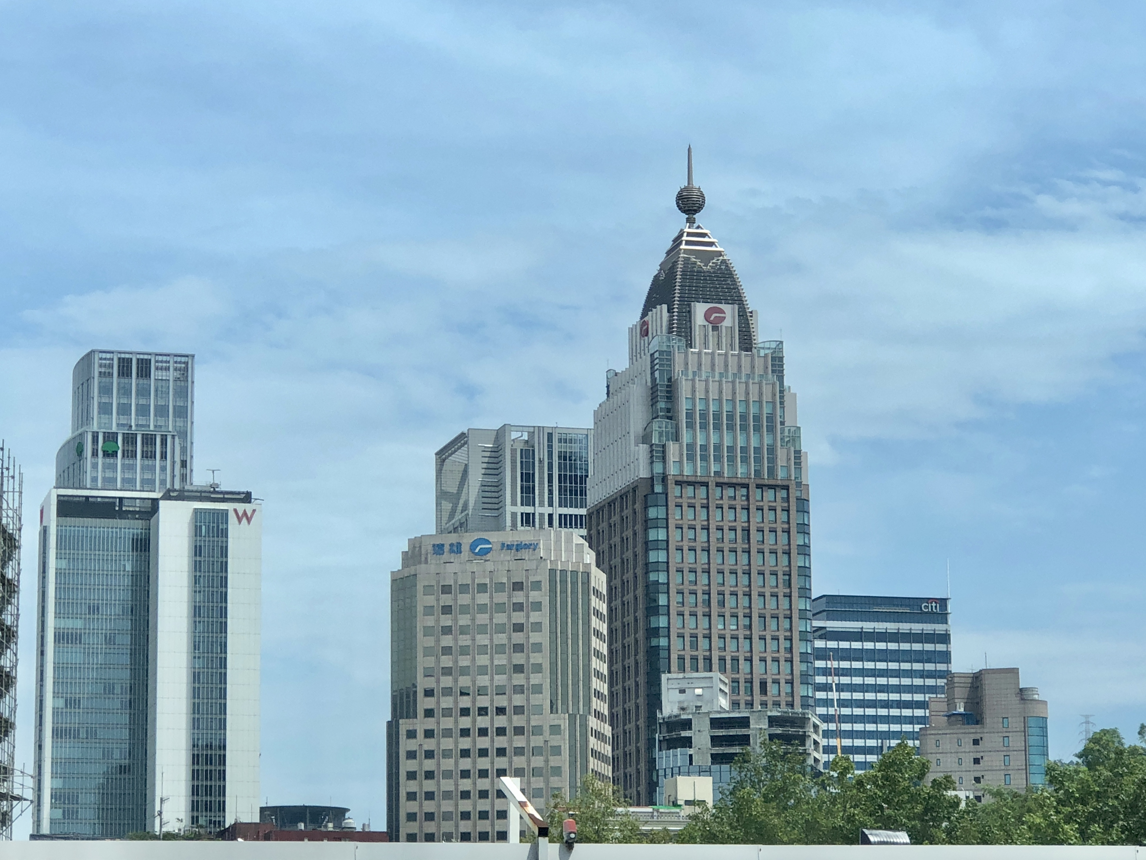 Cluster of skyscrapers in Eastern District, Taipei, Taiwan - including the W Hotel, Farglory Financial Center, Cathay Landmark